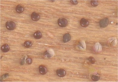 Chenopodium rubrum seeds and fruits